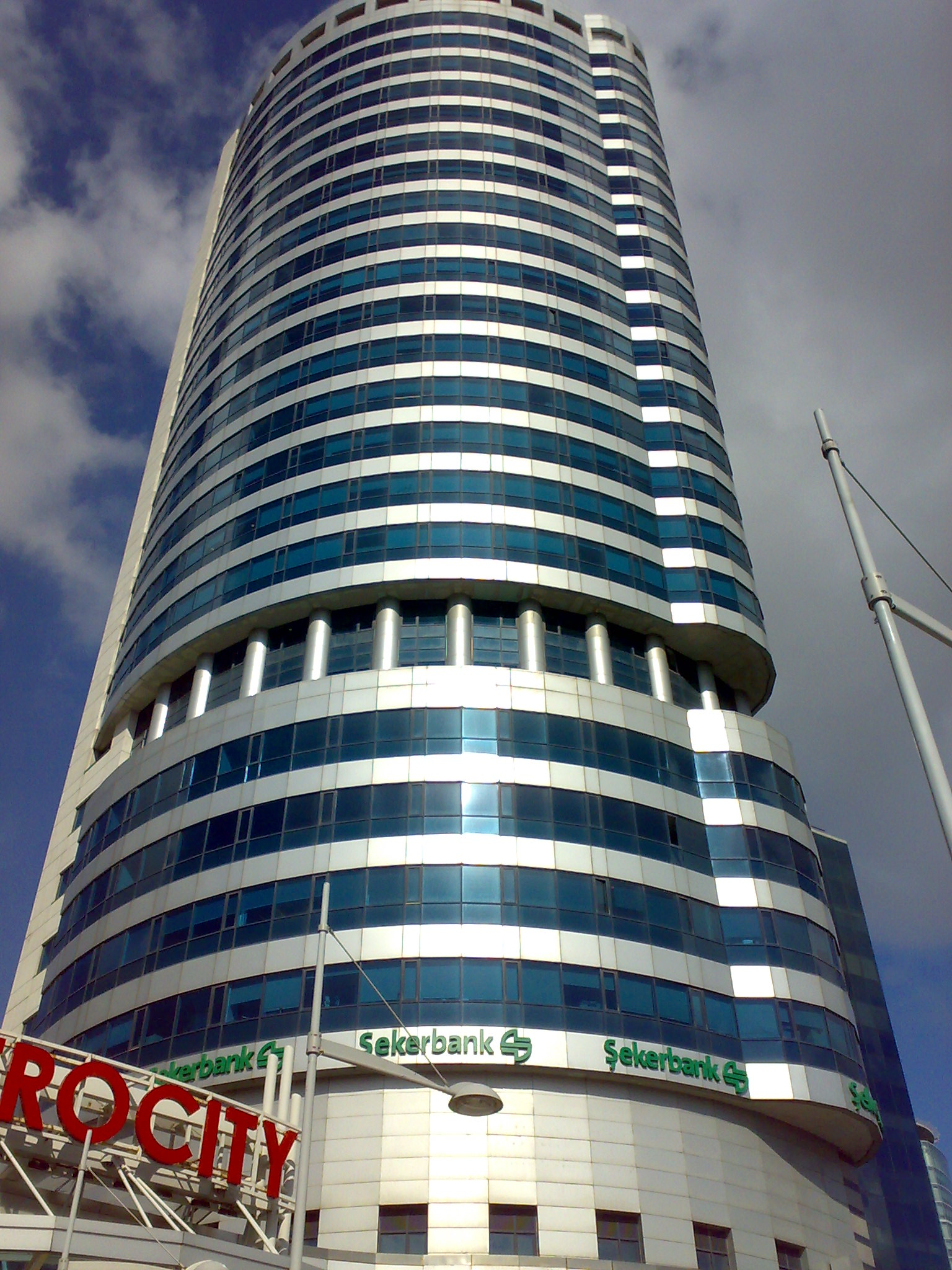 Metrocity Shopping Center,Istanbul,Turkey